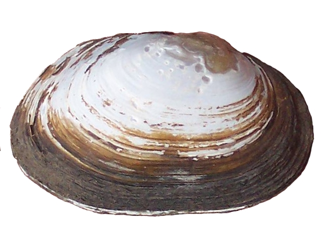 right valve of Velesunio ambiguous, from Ashley via Moree, Australia.